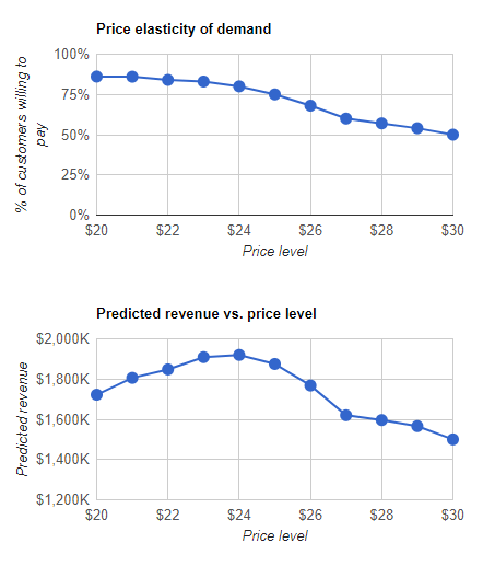 illustration of standard Gabor-Granger output: price elasticity of demand curve and chart of predicted revenue vs. price